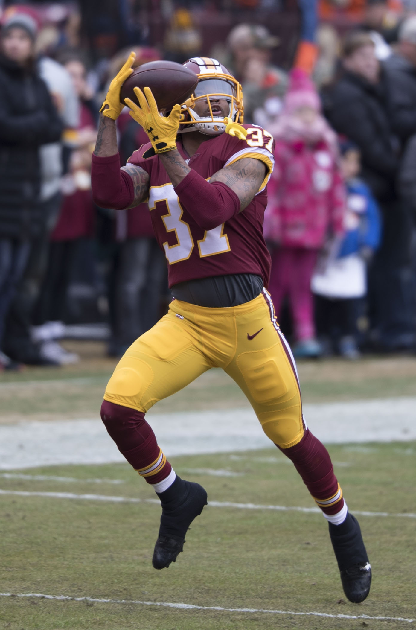 Washington Redskins safety, Fish Smithson, doing warm-ups before a game against the Denver Broncos on December 24, 2017.